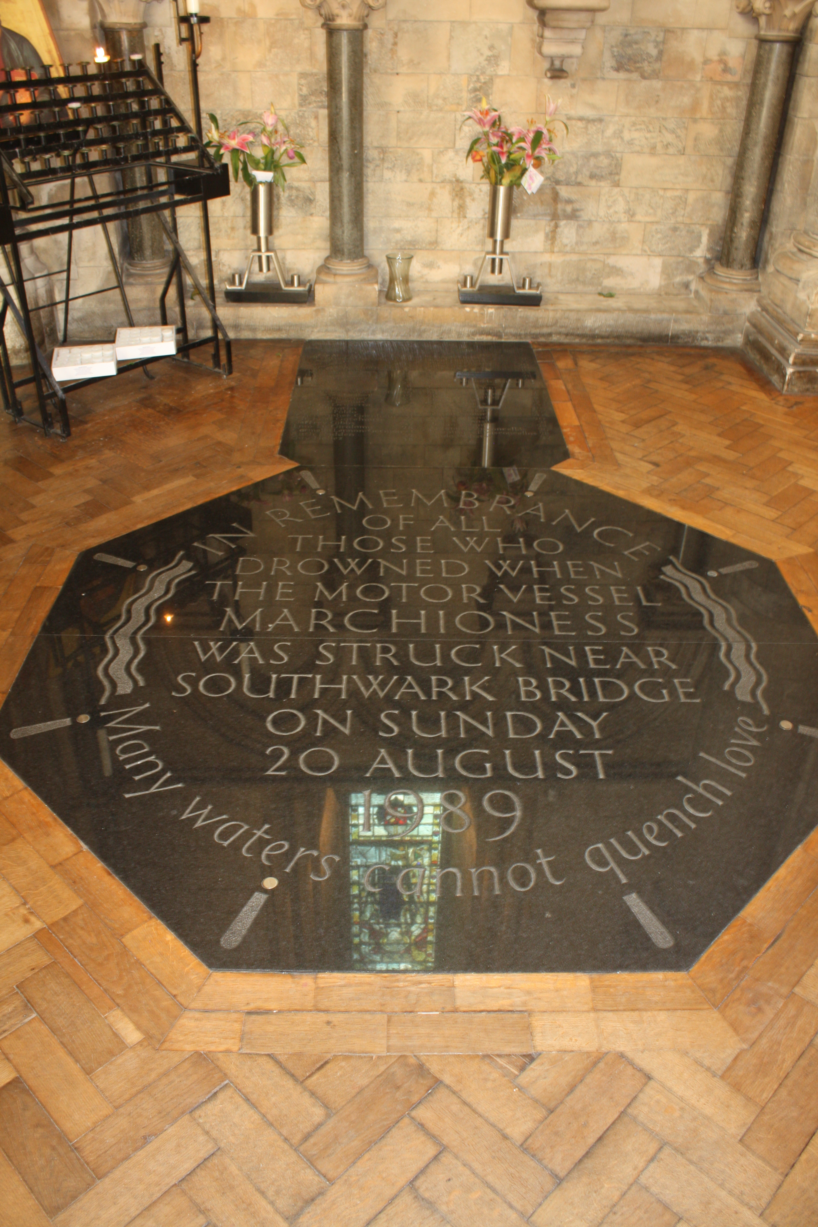 Marchioness memorial, Southwark Cathedral, London